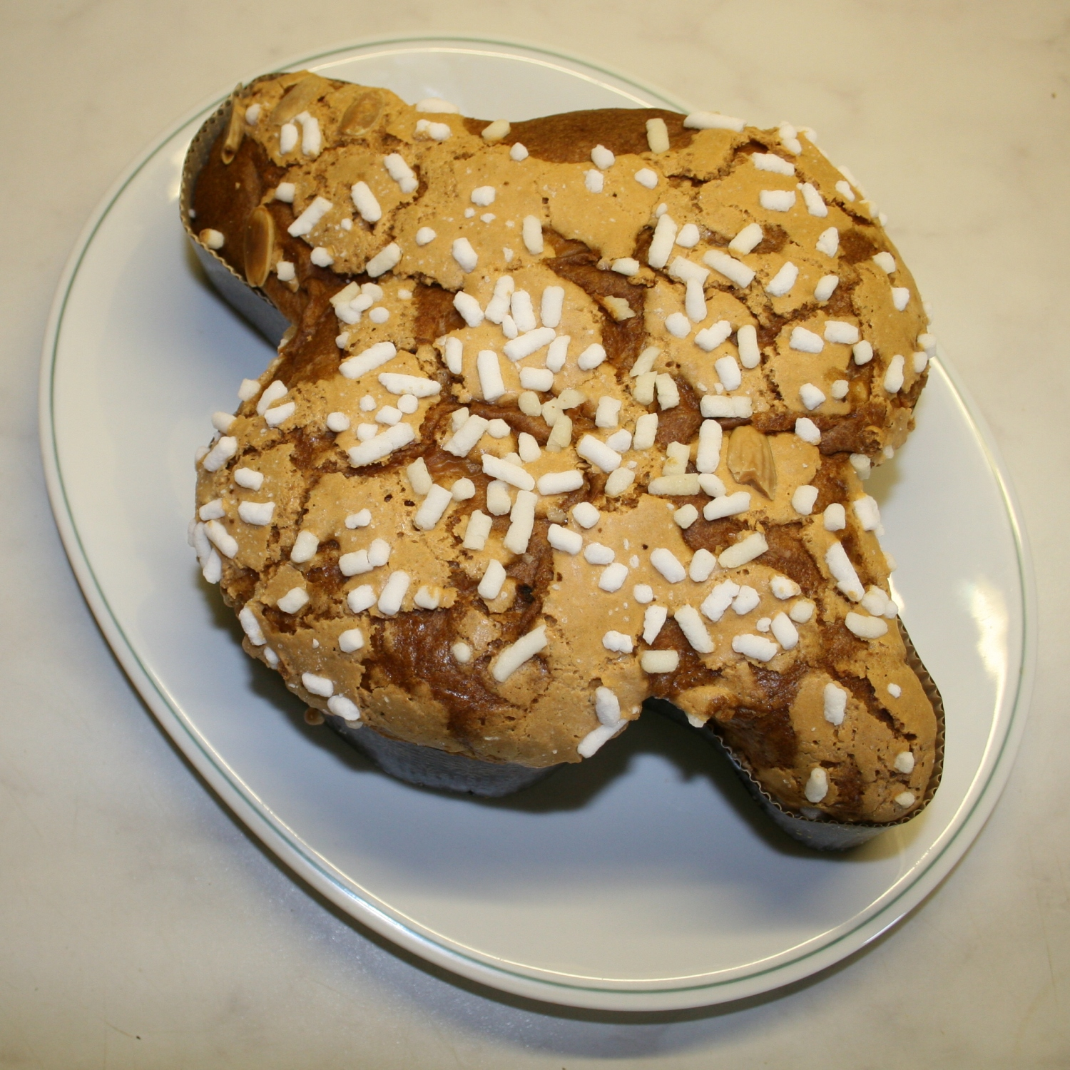 A purchased Colomba Pasquale, An Italian Sweet bread similar to Panettone and Pandoro. It is served During Easter, and is baked in the shape of a Dove(Colomba). It contains candied peel only, rather than raisins and peel (as traditional panettone does), and is decorated/topped with a glaze, pearl sugar and almonds before baking.